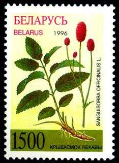 Stamp of Belarus